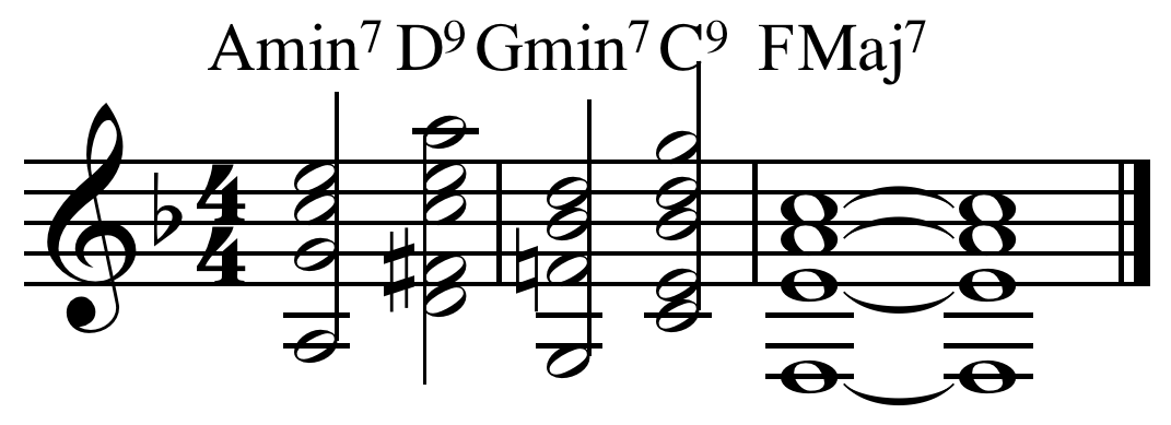 Turnaround in F.